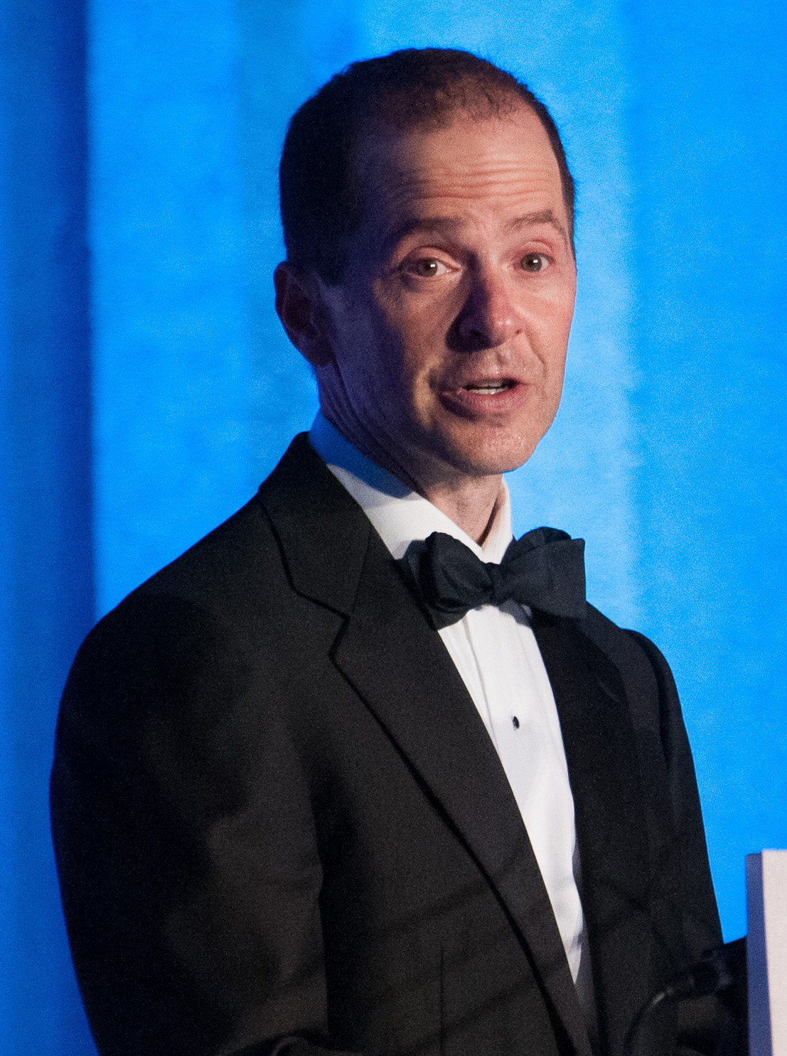 President and CEO of the Partnership for Public Service, Max Stier, gives his opening remarks.